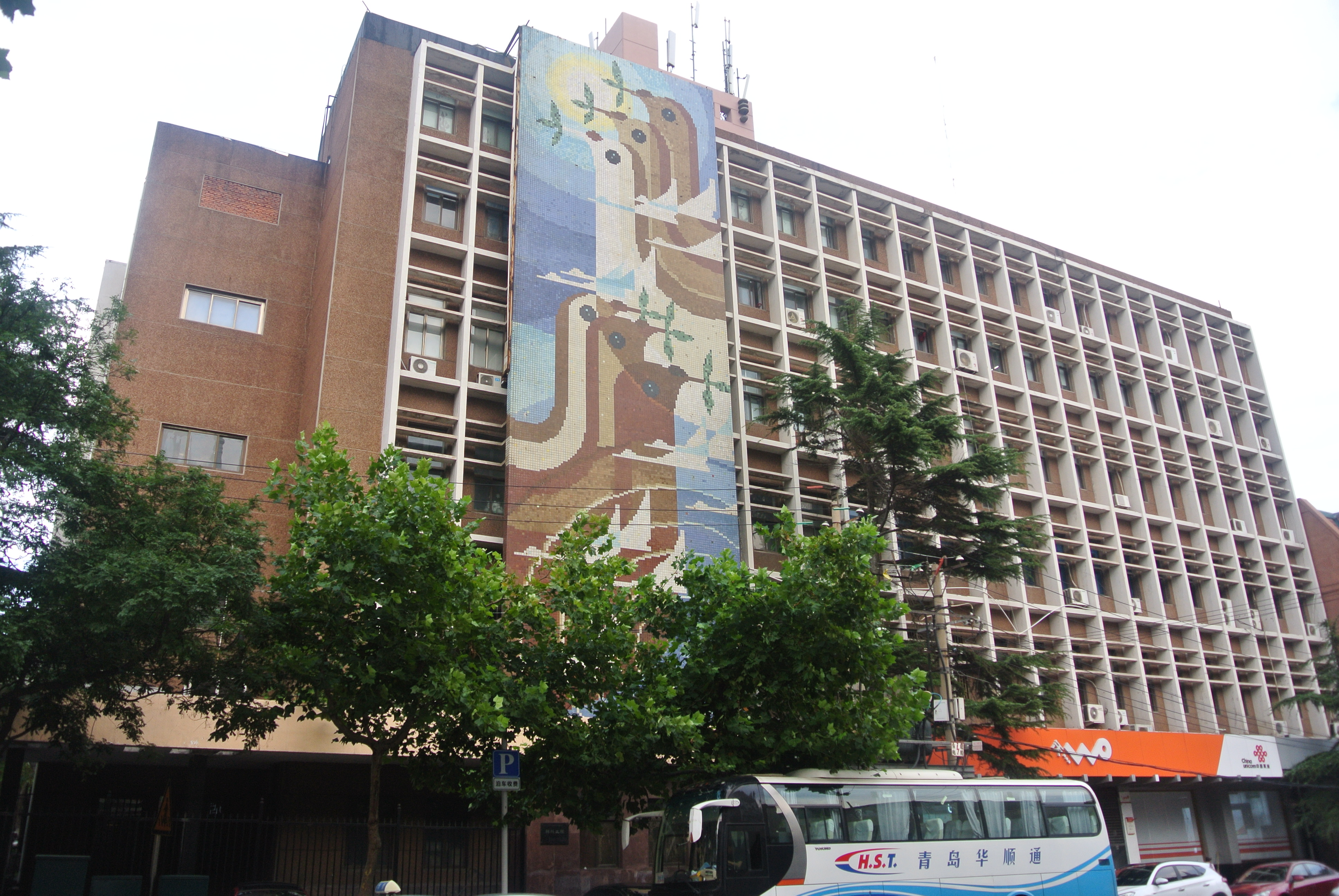 Former Qingdao Municipal Post and Telecommunications Bureau Building